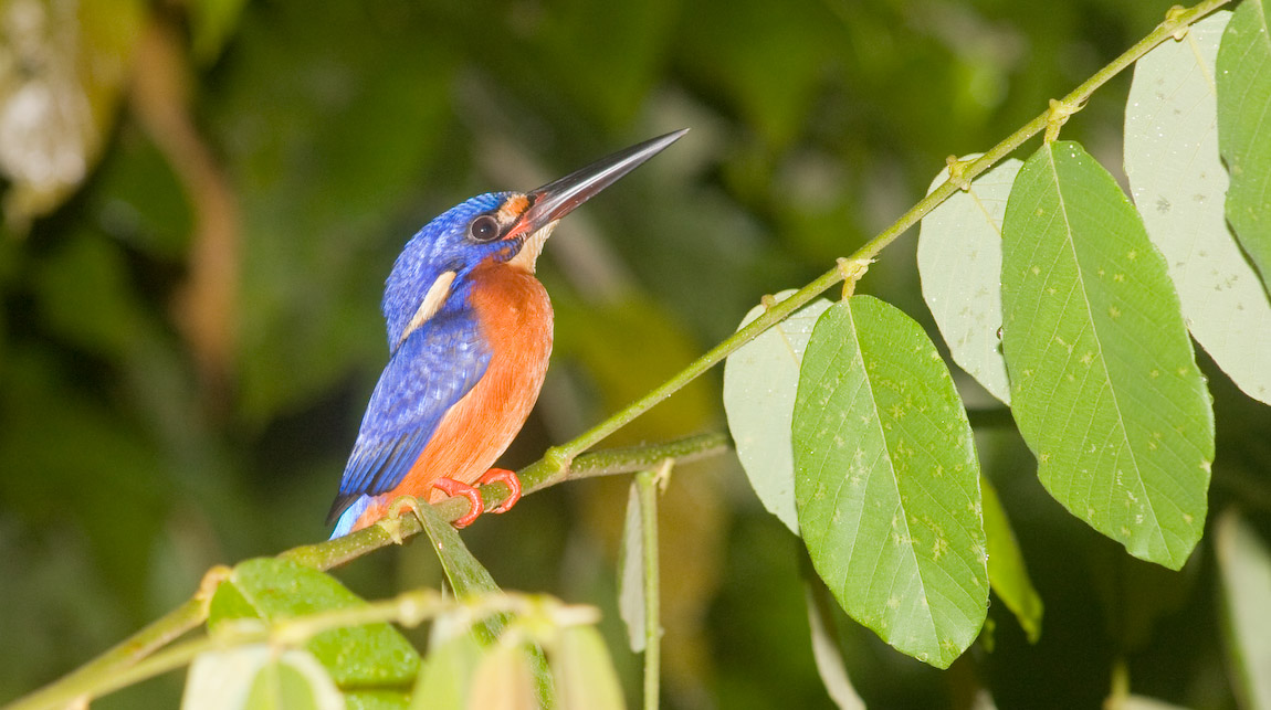 lower Kinabatangan River, eastern Sabah, You can see more of my photos of borneo at